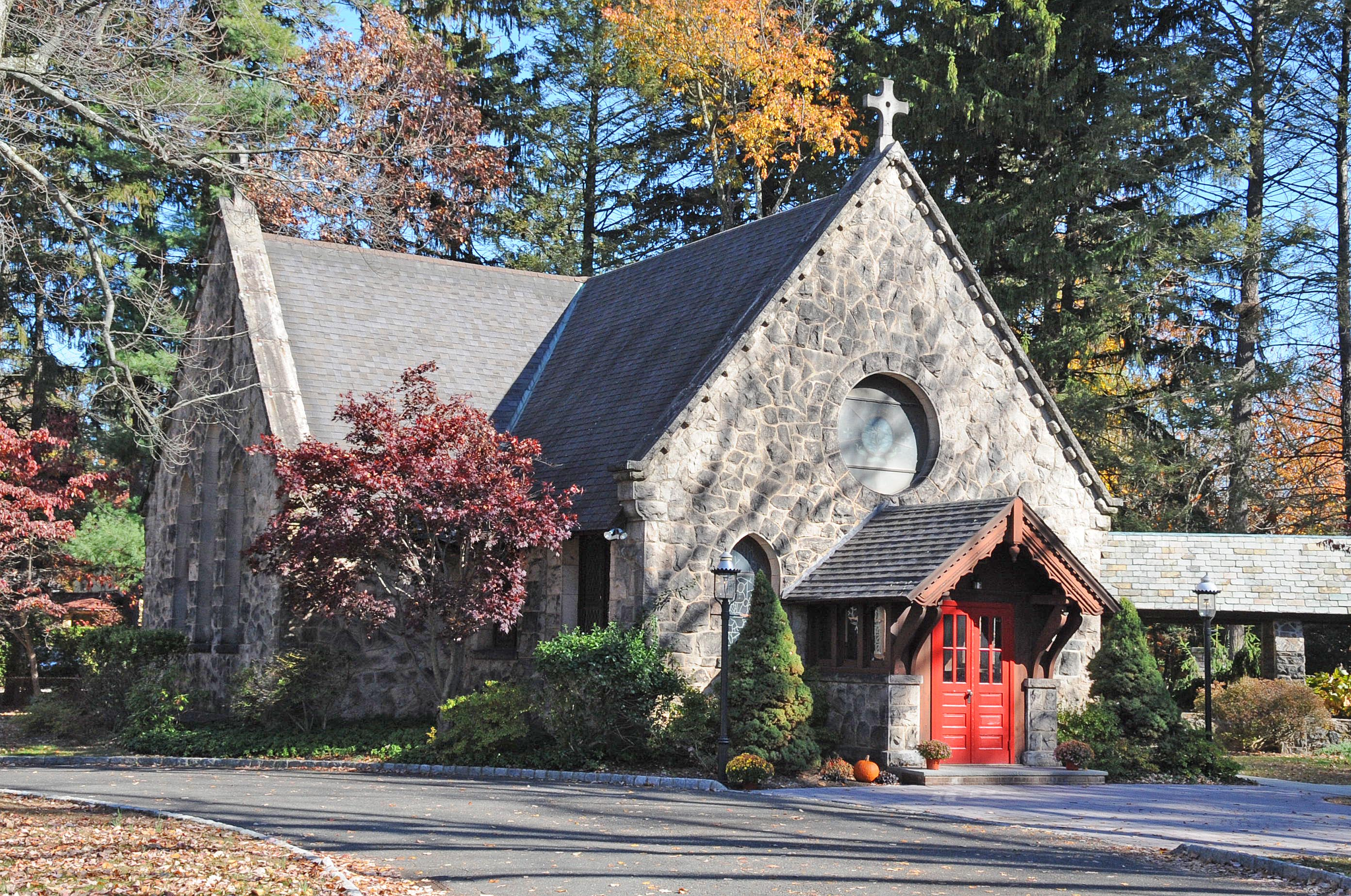 DESIGNED BY J. CLEAVELAND CADY IN LATE GOTHIC REVIVAL STYLE AND SHINGLE STYL AND WAS BUILT IN 1886.